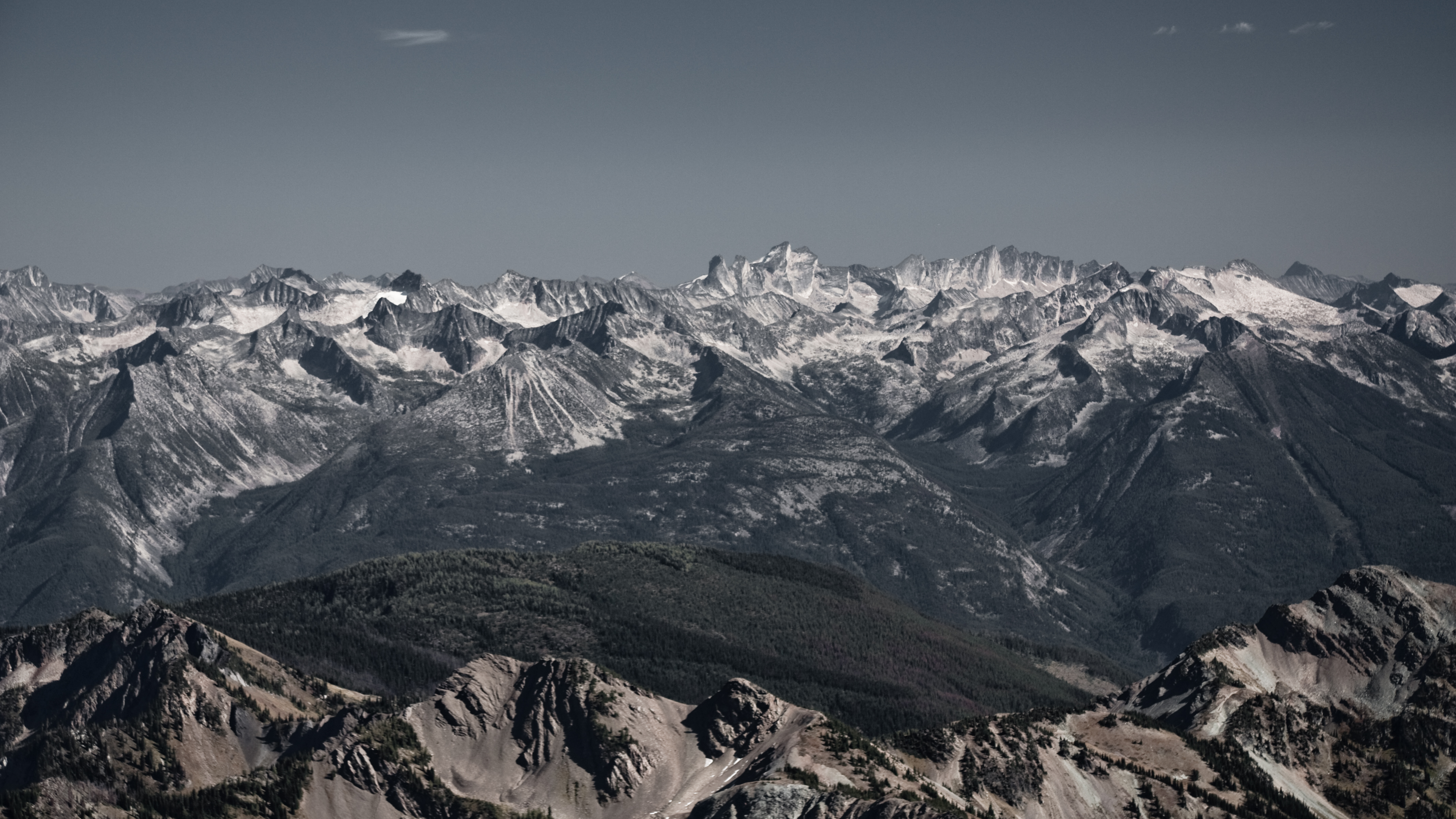 Leaning Towers group From Mount Brennan (Selkirks)